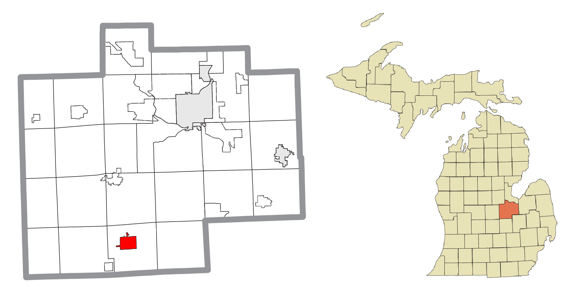 Chesaning, MI